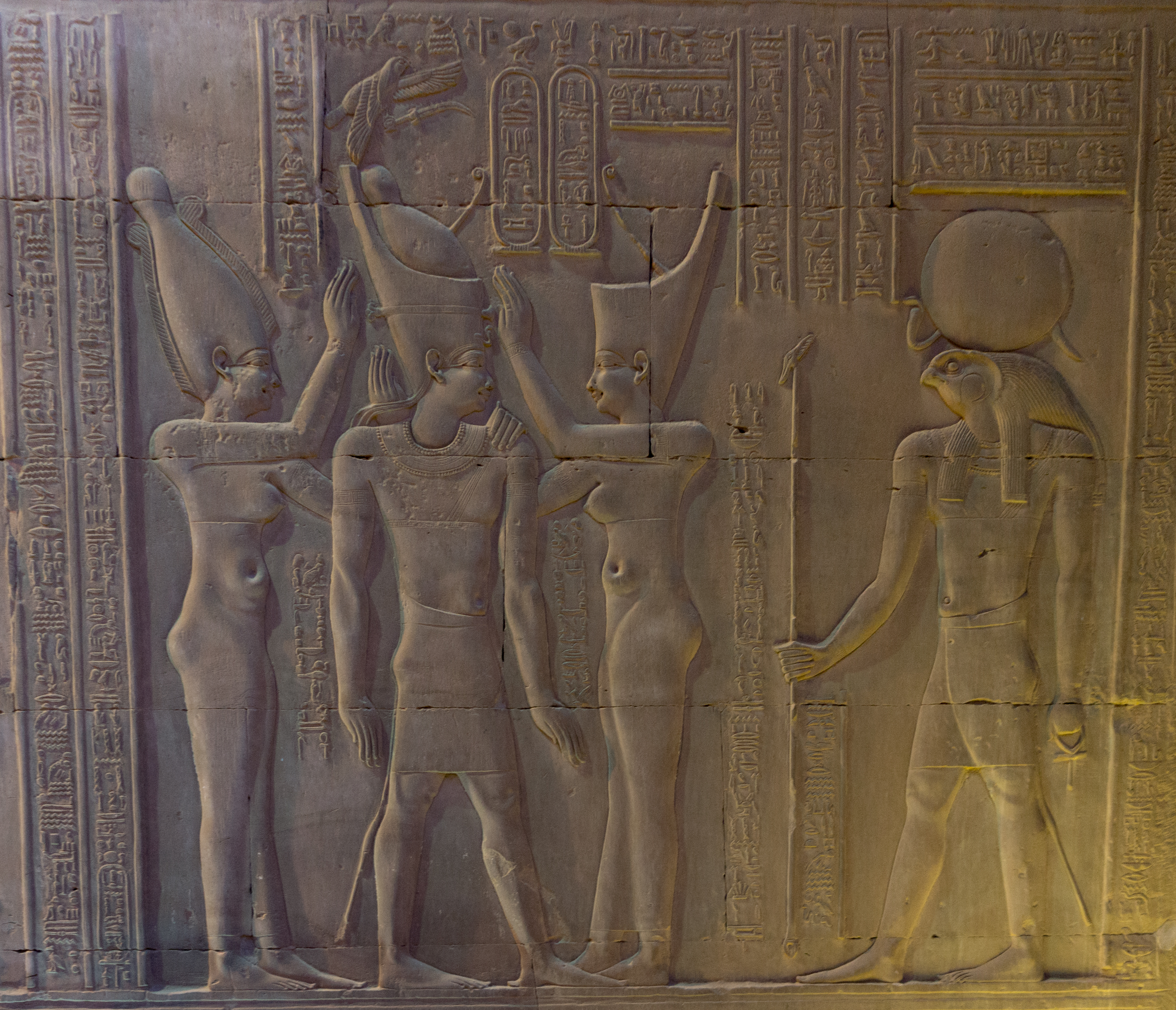 Coronation of Pharaoh Ptolemy IX